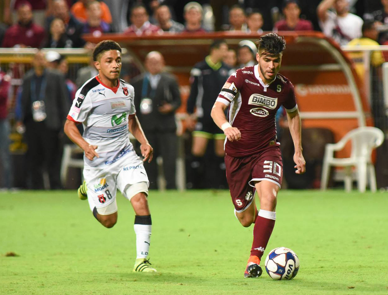 Ulises Segura playing with Saprissa on December 1st, 2016